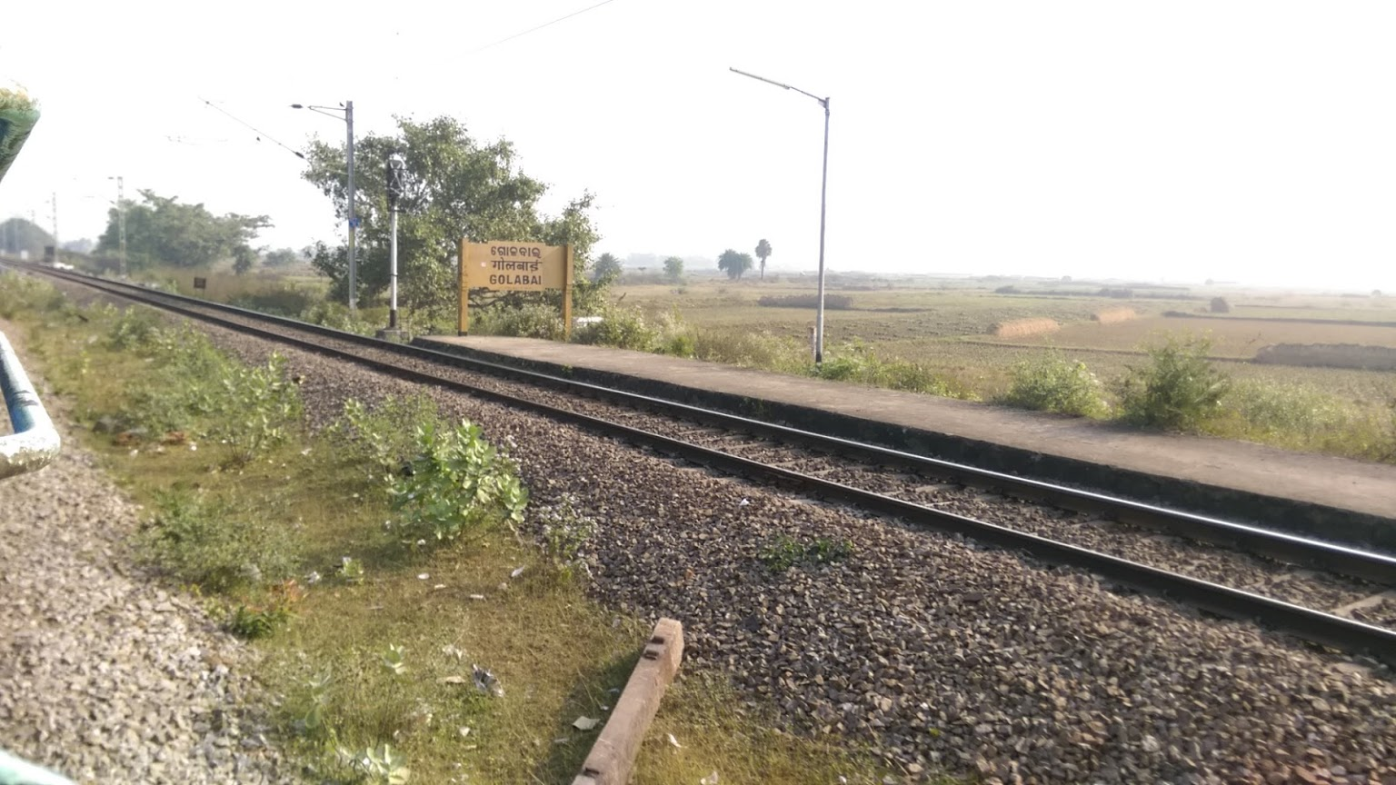 This is the Picture of Golabai railway station